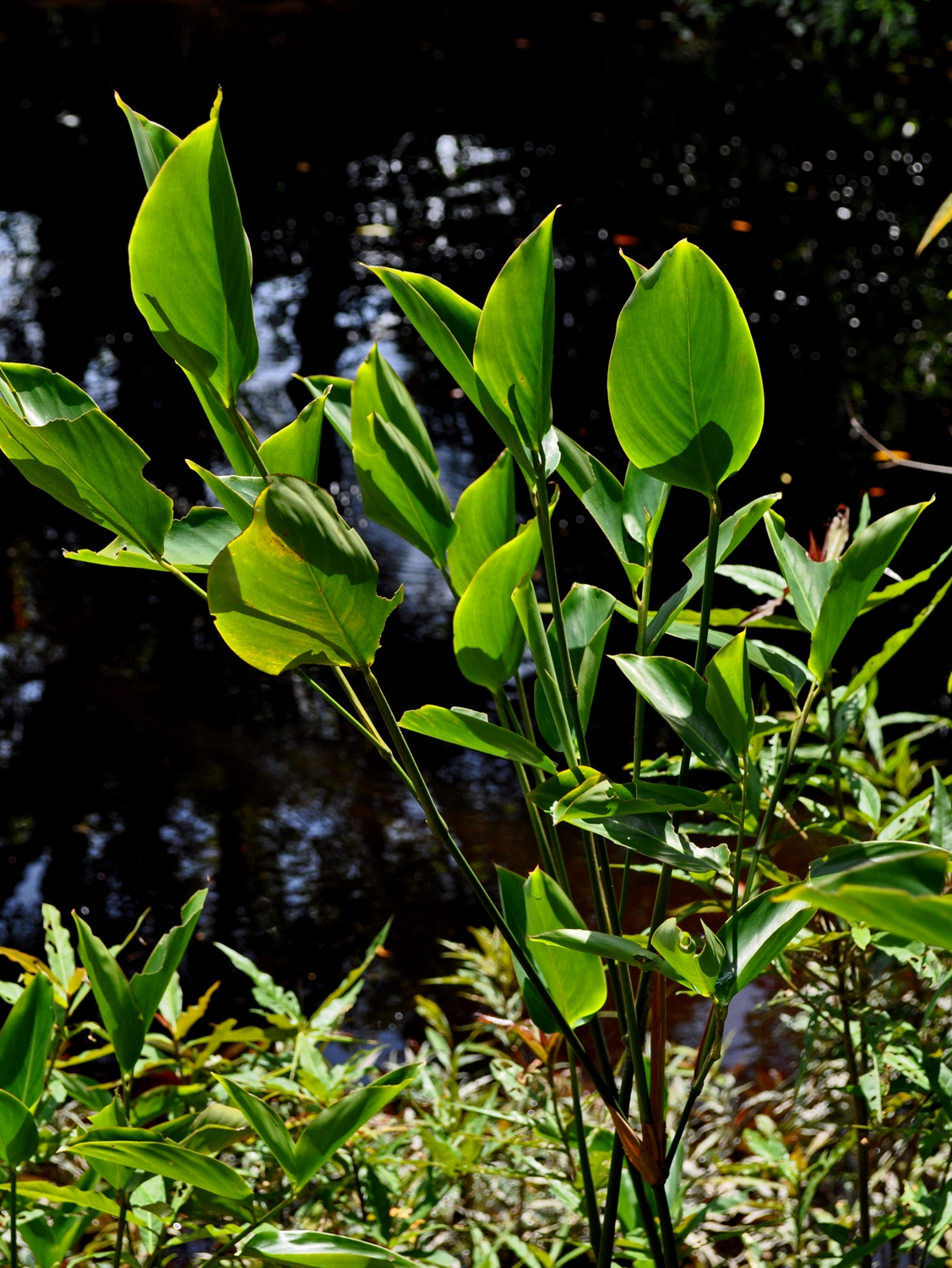 Bamban, Donax canniformis; habits. From West Kalimantan, Indonesia.